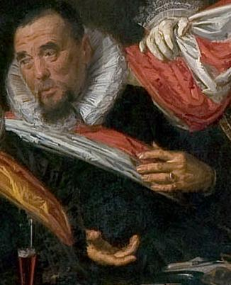 Portrait of Jacob Laurensz in The Banquet of the officers of the Saint George Civic guard in Haarlem in 1616, detail